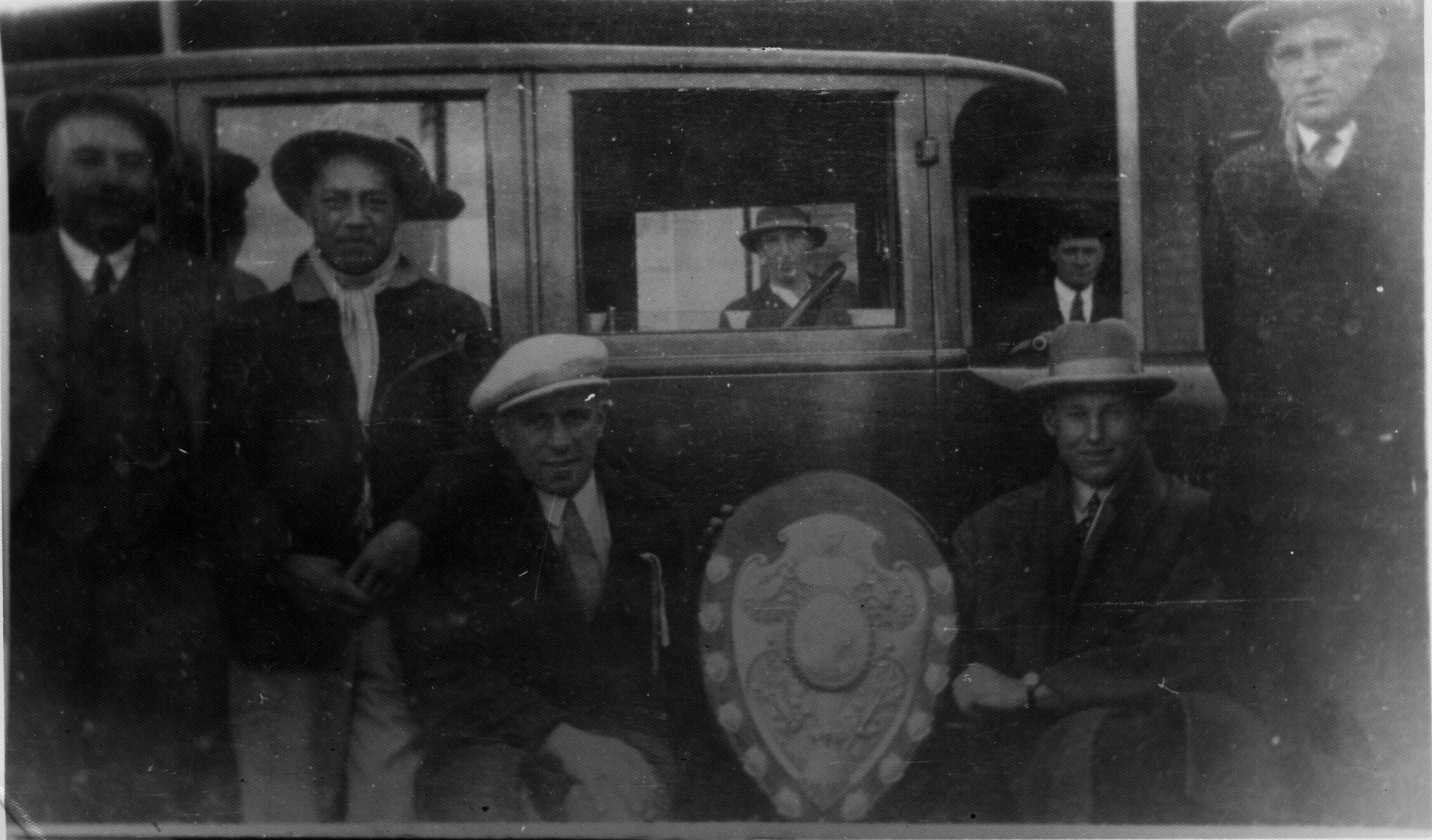 Written on back with black felt-tip pen: “Ranfurly Shield Howhenua Victorious I Beleive Tgame F TREMEWAN” Ranfurly Shield visit to Shannon, 1927. Seven men are pictured with the shield which is between two men and sitting on the running board of a car. 1 B&W photo print, copy Any use of this image must be accompanied by the credit “Horowhenua Historical Society Inc.”